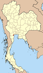 Map of Thailand highlighting Samut Songkhram province